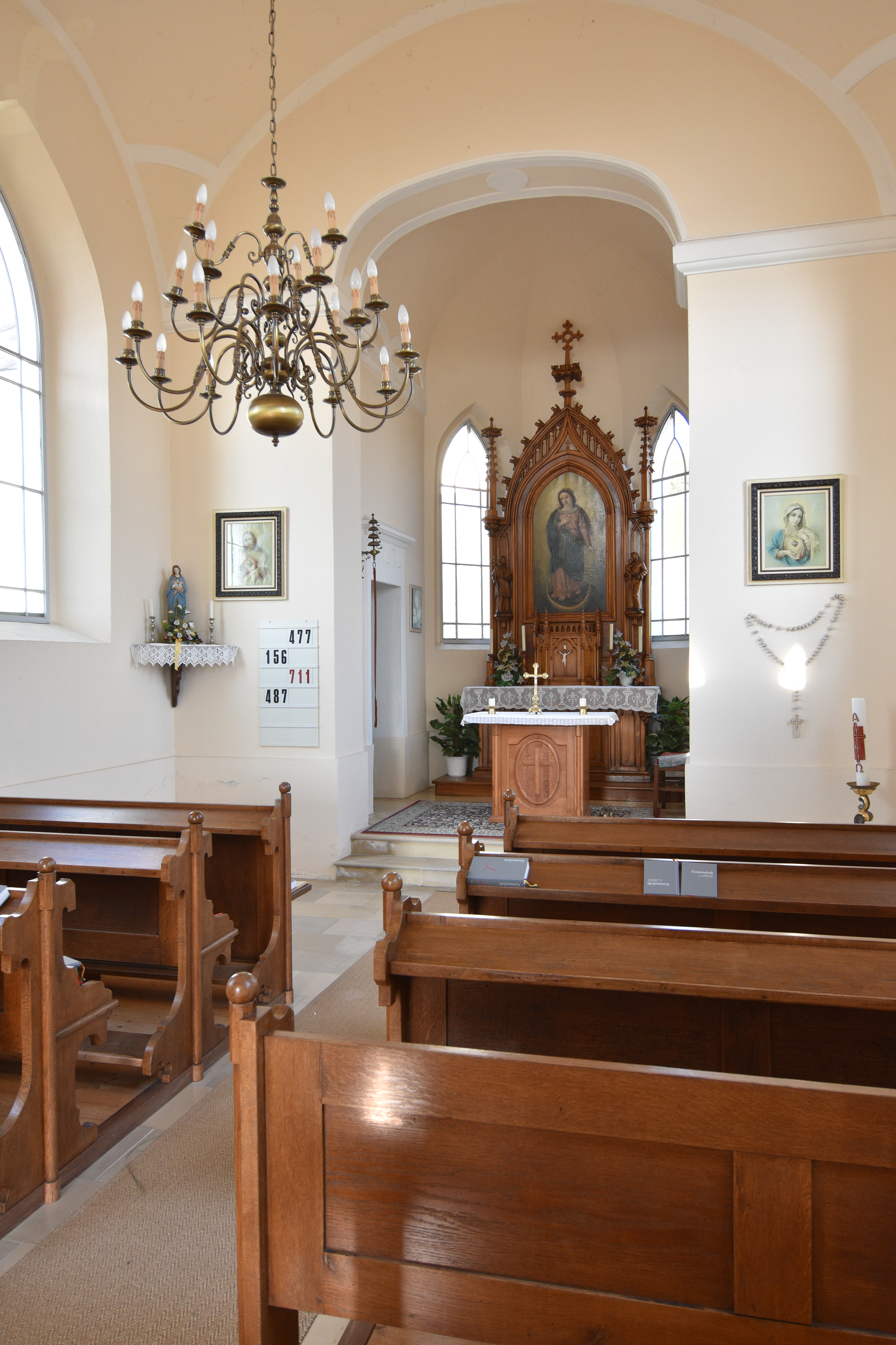 Church Poppendorf im Burgenland - Interior